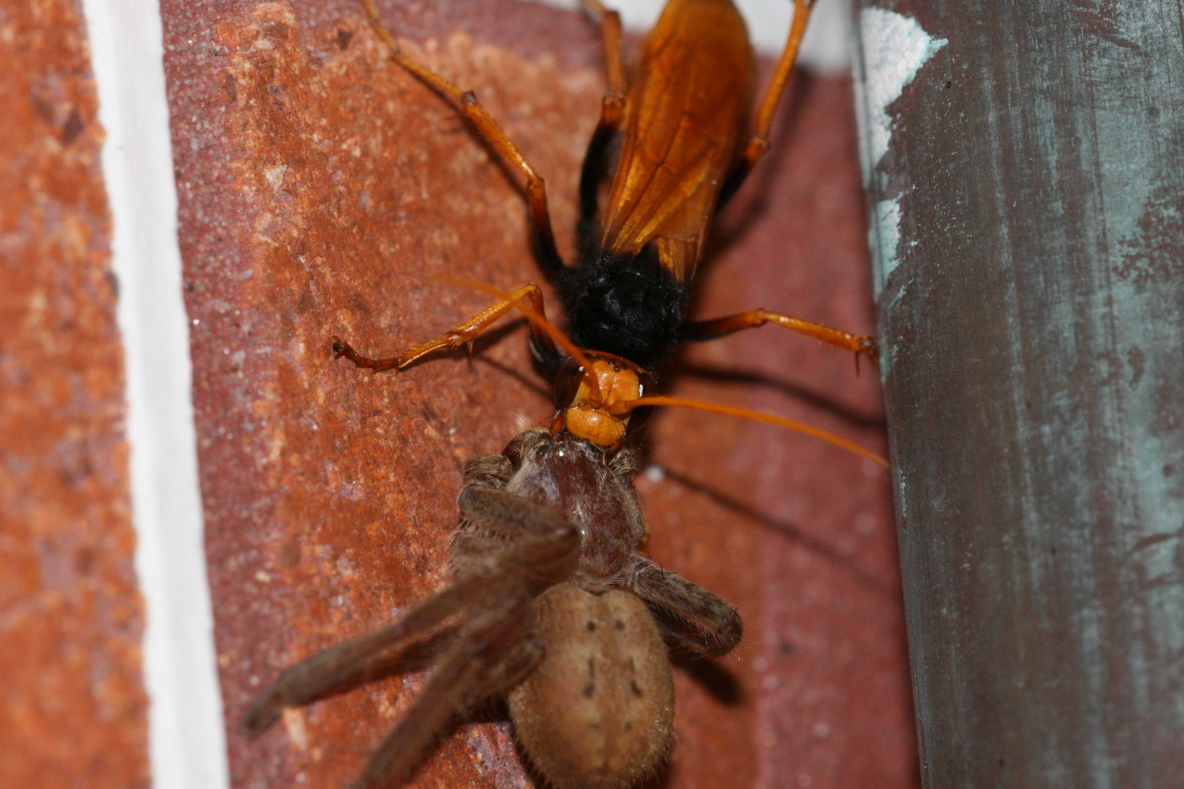 Spider wasp of genus Cryptocheilus with huntsman spider vicitm, Sydney